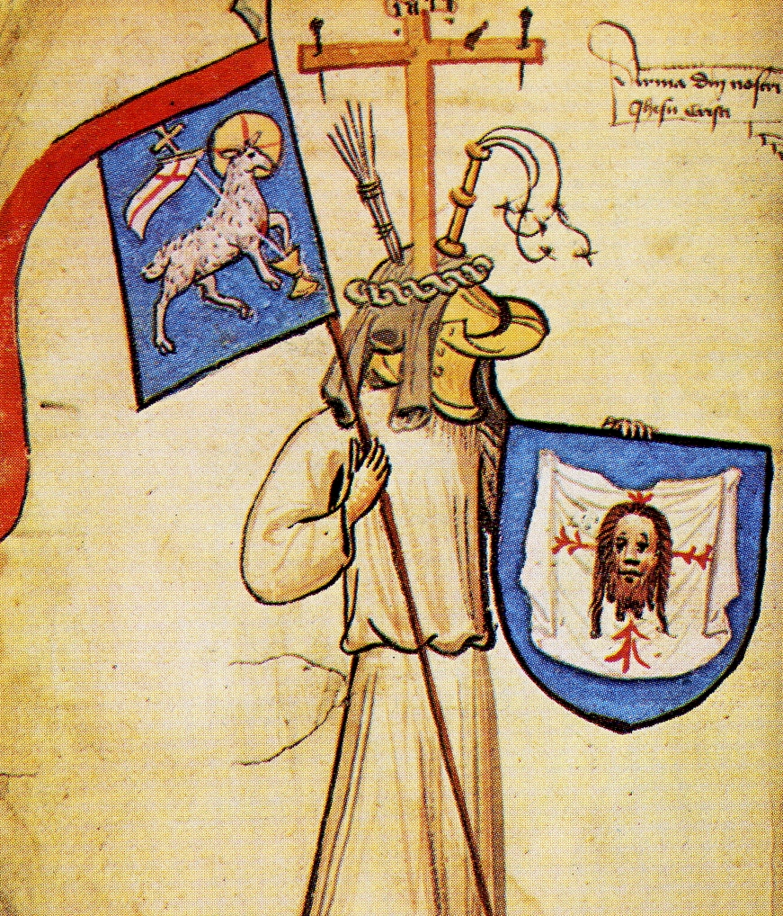 An image of Jesus, represented as a medieval armiger. The picture comes from the middle of the 15th century Hyghalmen Roll which is now at the College of Arms, London. Medieval officers of arms thought it important that notable individuals from before the heraldic age should have arms attributed to them.